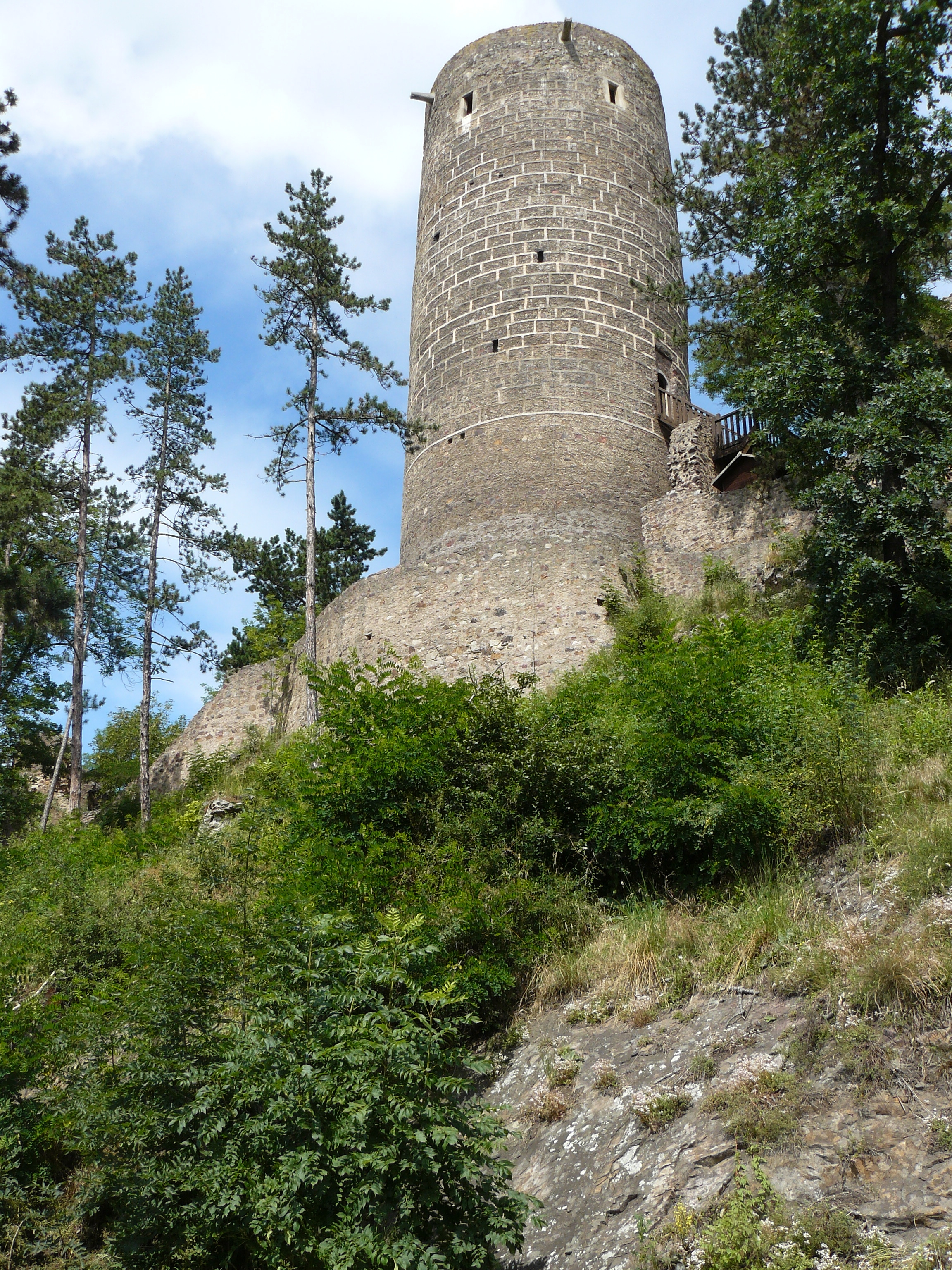 View of a tower of Žebrák Castle in the Czech Republic